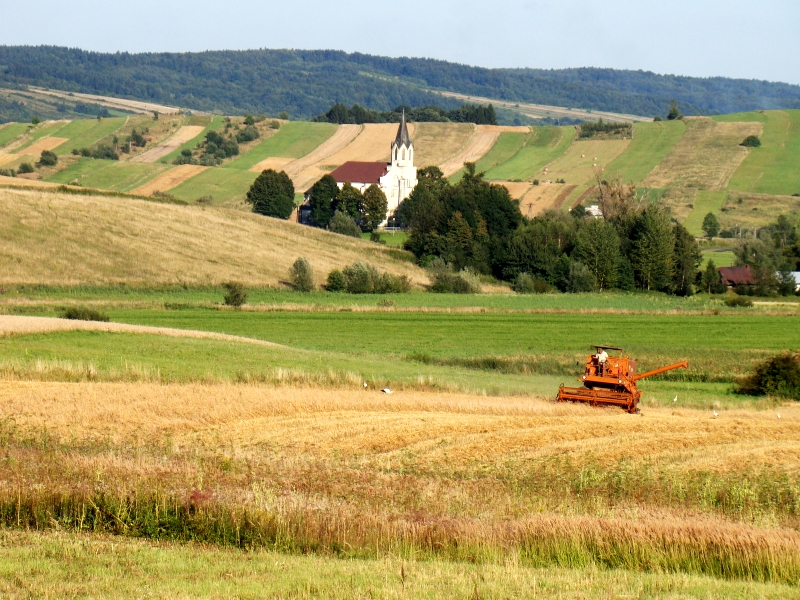 Dudyńce